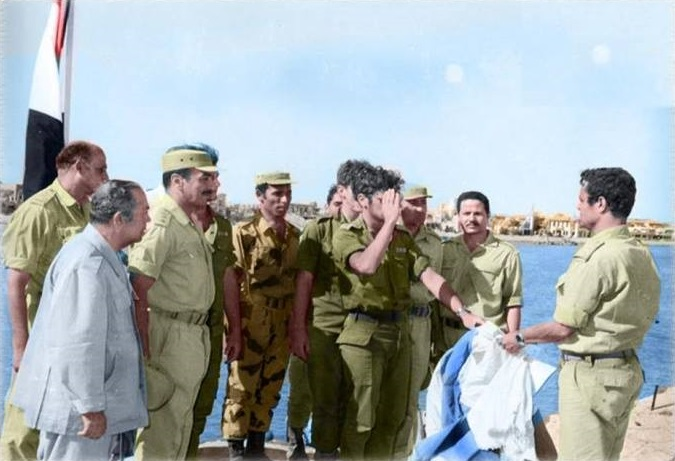 Israeli Commander of Port Tawfiq Fortress Surrendered to Egyptian Forces - 6th Oct 1973